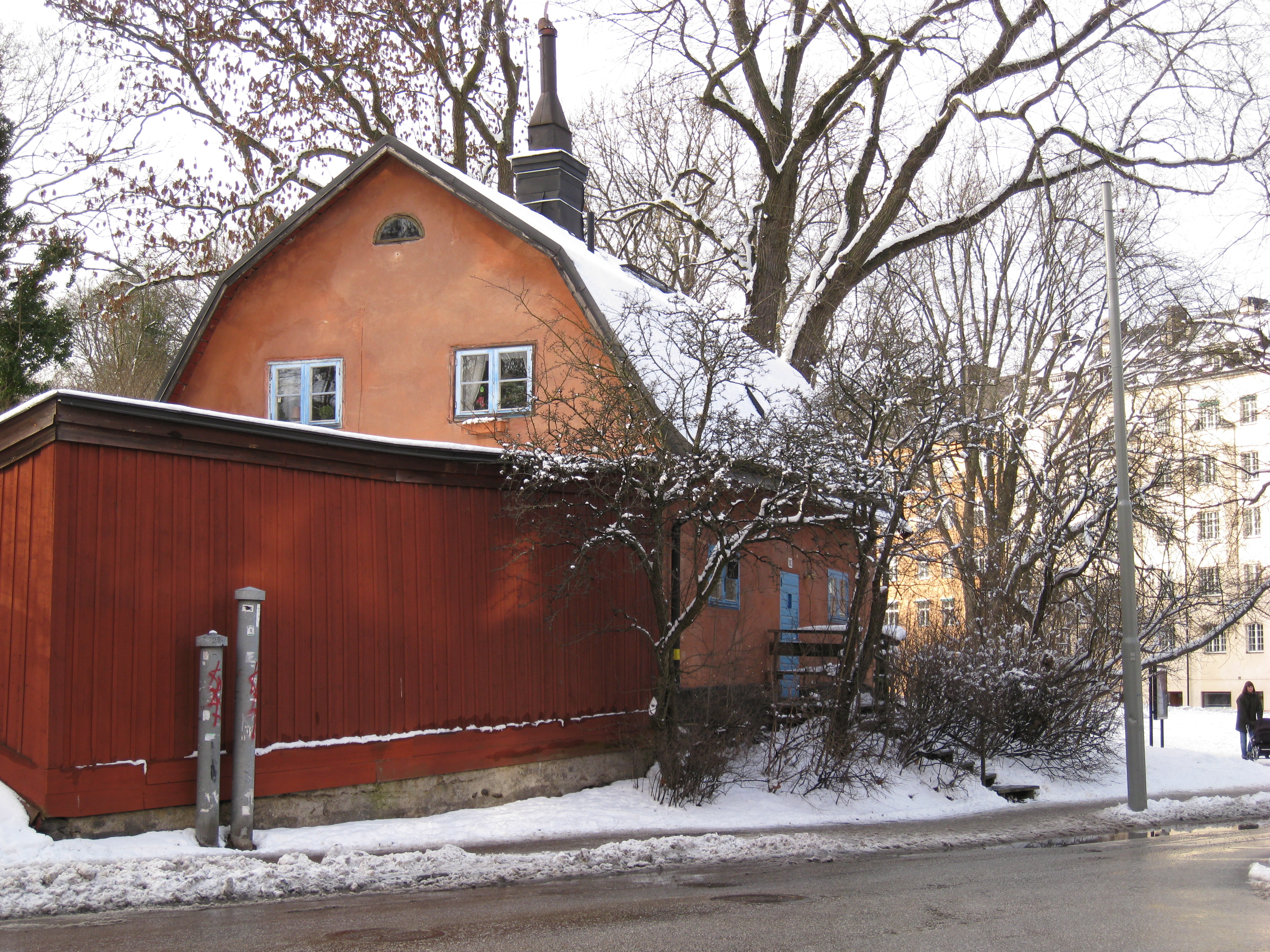 Gate-house of Heleneborg, Varvsgatan in Stockholm